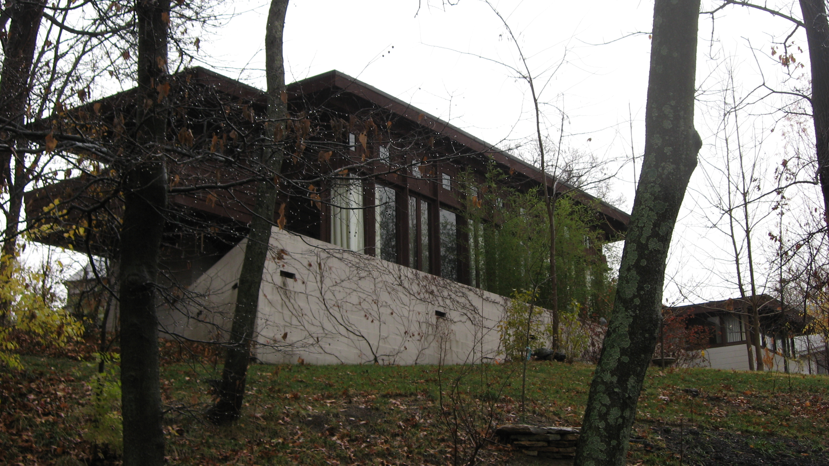 Front of the Cedric G. and Patricia Neils Boulter House, located at 1 Rawson Woods Circle in the Clifton neighborhood of Cincinnati, Ohio, United States. Built in 1955, it is listed on the National Register of Historic Places.